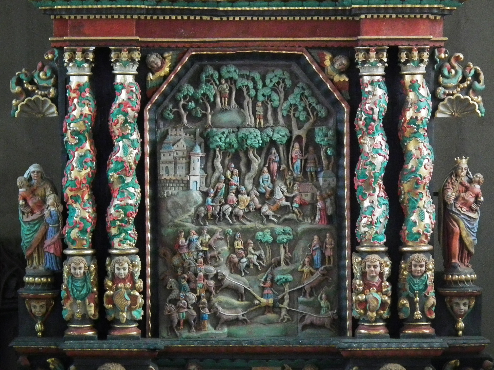 Altar depicting the legend of Genevieve of Brabant - Detail Fraukirch Native nameFraukirchLocationThür, Rhineland-Palatinate, GermanyCoordinates50° 21′ 09″ N, 7° 18′ 47″ E Authority control : Q1451958